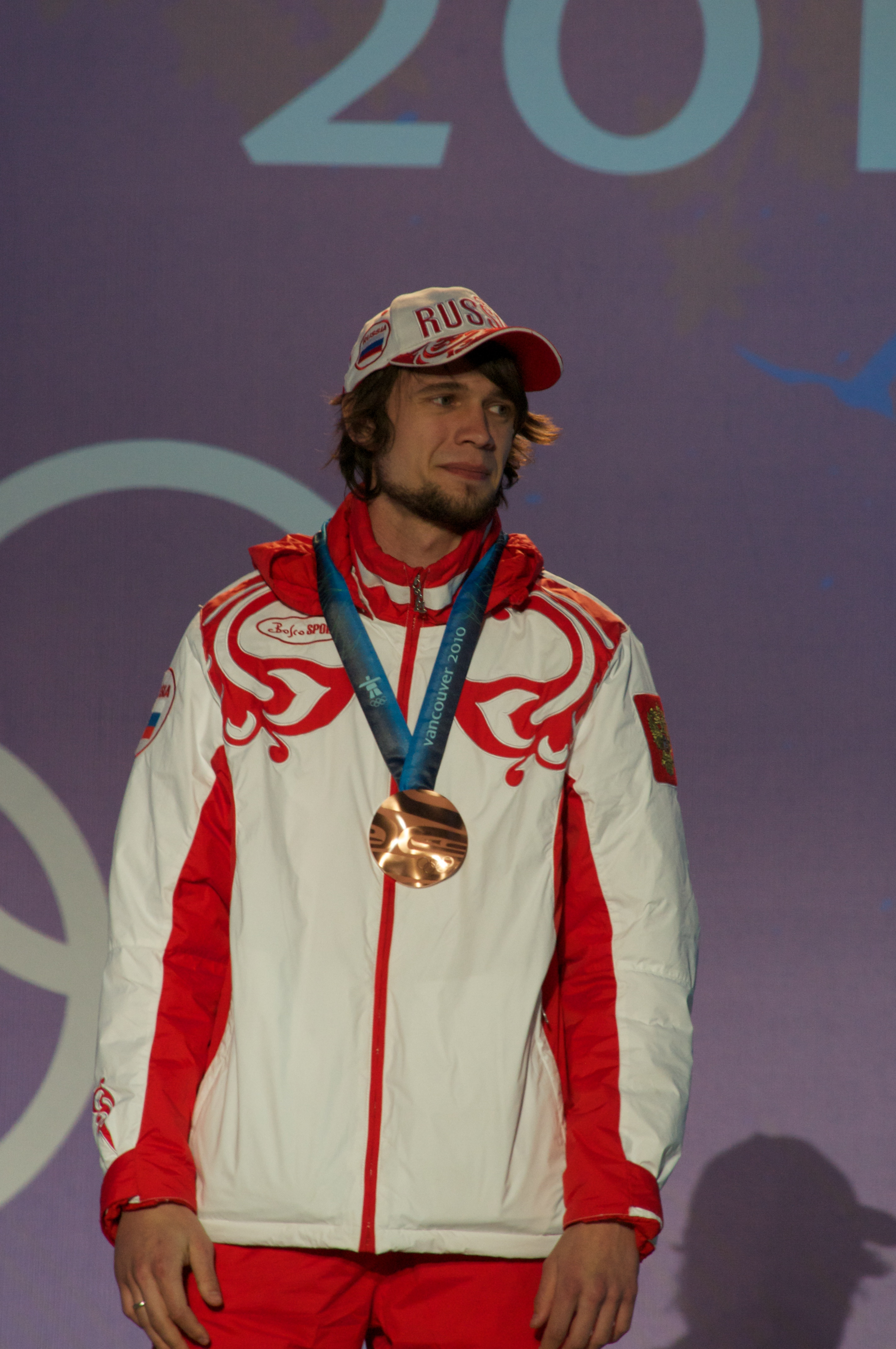 Alexander Vladimirovich Tretiakov (Russian: Александр Владимирович Третьяков) (born April 19, 1985 in Krasnoyarsk) is a Russian skeleton racer. The Medal Ceremony at Whistler on Day 9 of the Vancouver 2010 Winter Olympics.